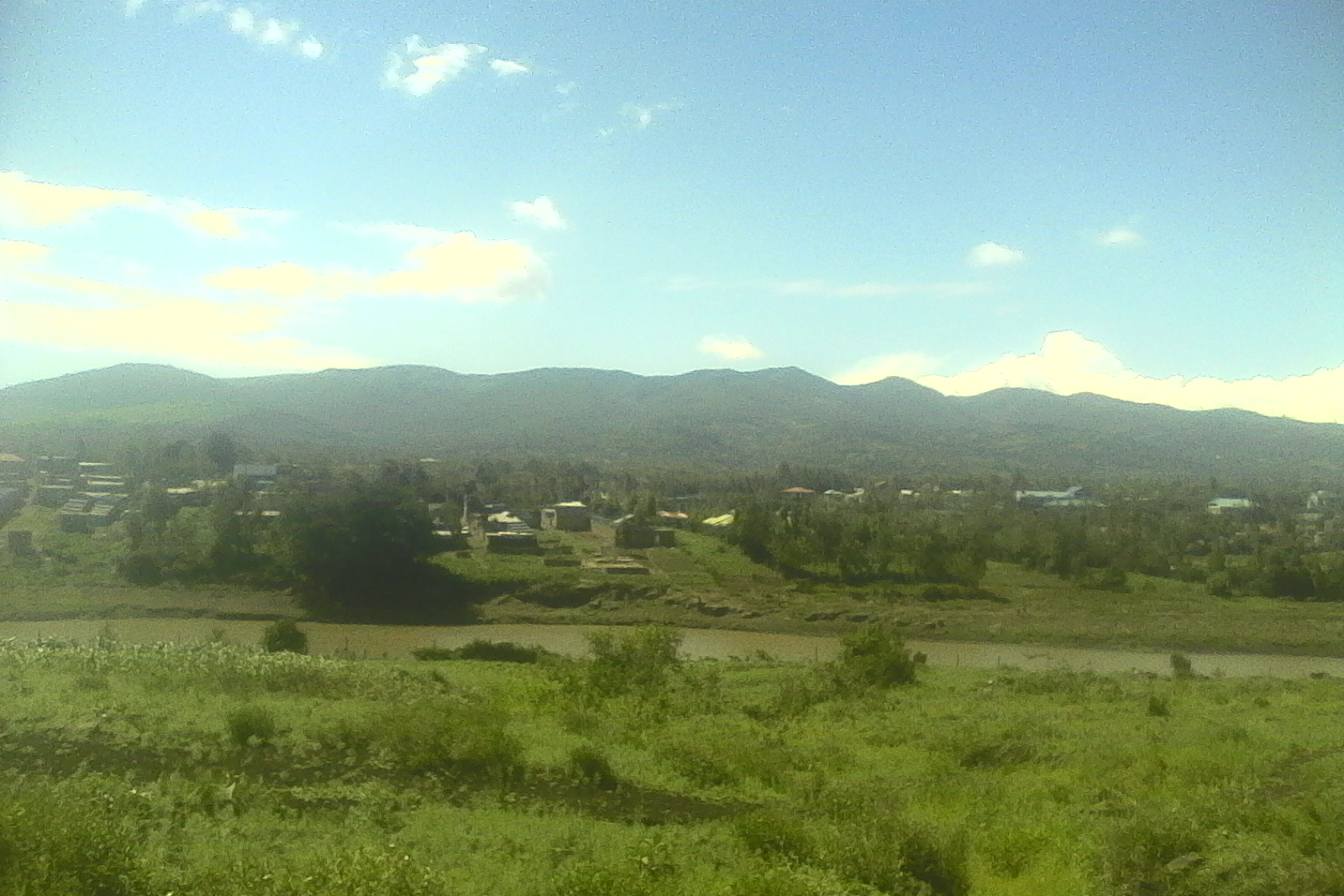 This photo is taken from the east of Ngong hills in kiserian.